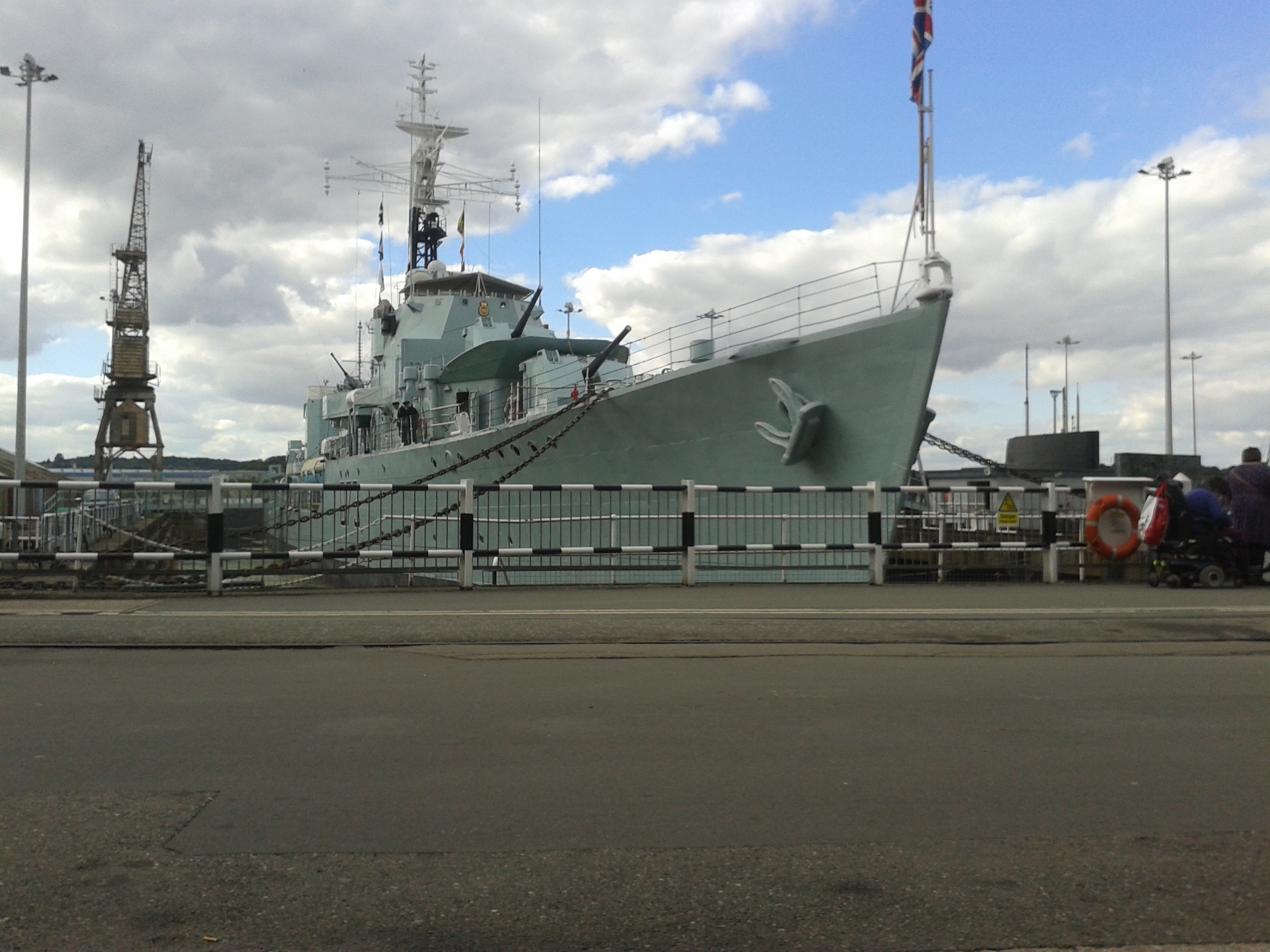 HMS Cavalier in September 2015 at the Chatham Historic Salute to the 40's event